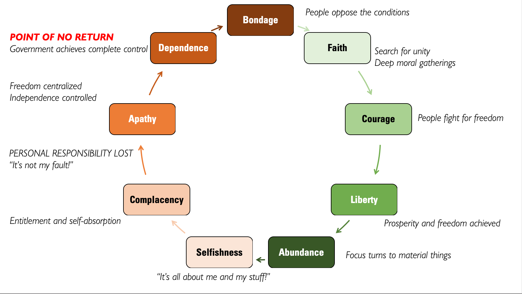 The Tytler cycle as proposed by Alexander Fraser Tytler, Lord Woodhouselee.